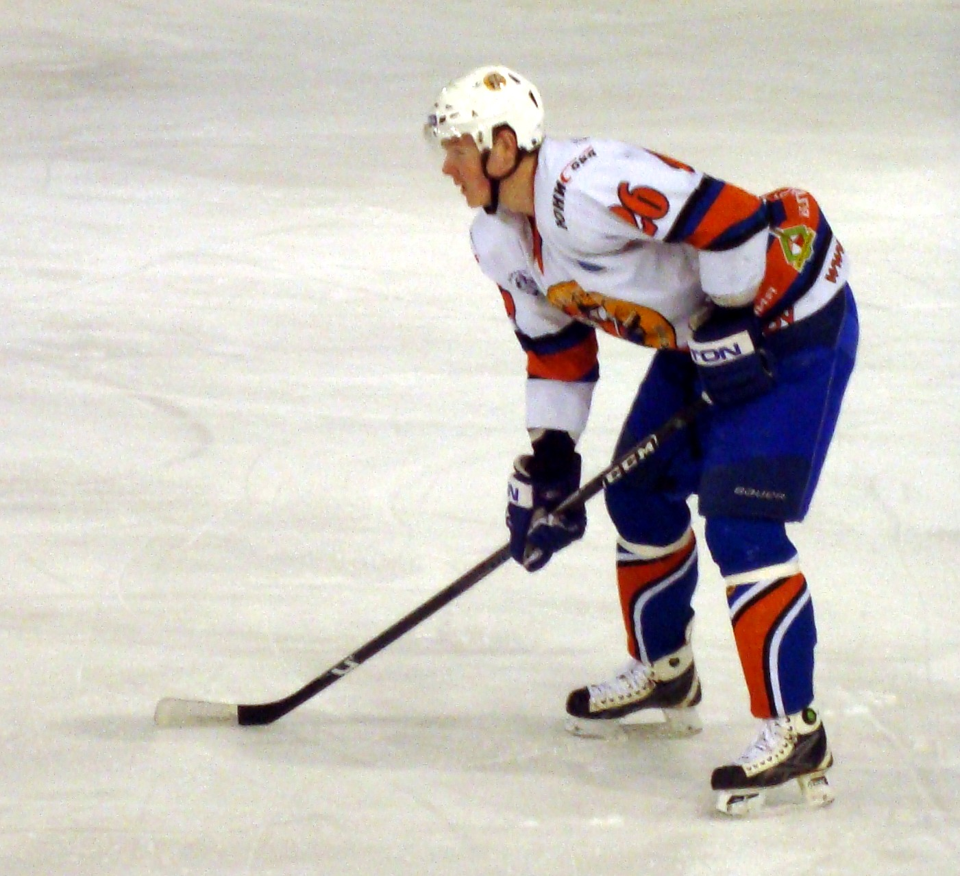 Defender Aleksandr Syrei #26 of the Shakhtar Soligorsk stands during the Belarusian Extraliga game against Sokil Kyiv at Terminal on February 2, 2010 in Brovary, Ukraine. Shakhtar won the game 4-3.